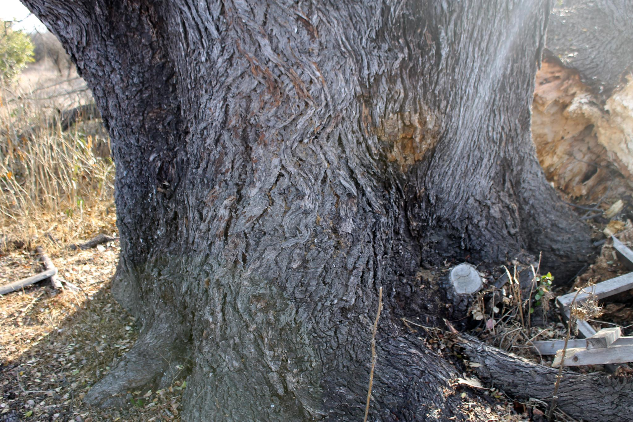 We estimate the age of the tree based on the diameter of the branch of an outbreak of 24 years is observed at the base of the tree to the right. Accordingly the tree is at least 303 years old, however it is possible that the error is large underestimation because it rings outbreaks are usually much wider than the trunk of an adult tree. The rings can easily be twice wider at the buds on the trunk so that the tree could be 500 years or more Estimamos la edad del arbol en base al diametro de la rama de un brote de 24 años que se observa en la base del árbol hacia la derecha. De acuerdo a esto el árbol tiene a lo menos 303 años de edad, sin embargo es posible que el error por subestimación sea grande a causa de que los anillos de los brotes normalmente son mas anchos que los del tronco del un árbol adulto. Los anillos pueden ser fácilmente el doble mas anchos en los brotes que en el tronco, de forma tal que el árbol podria tener 500 años o mas.